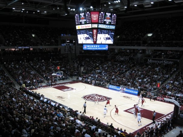 MSU Basketball vs Arkansas